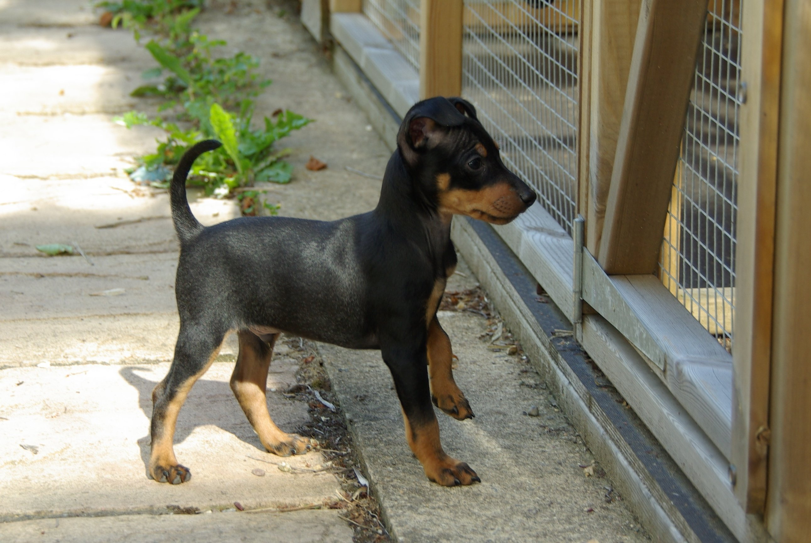 English Toy Terrier